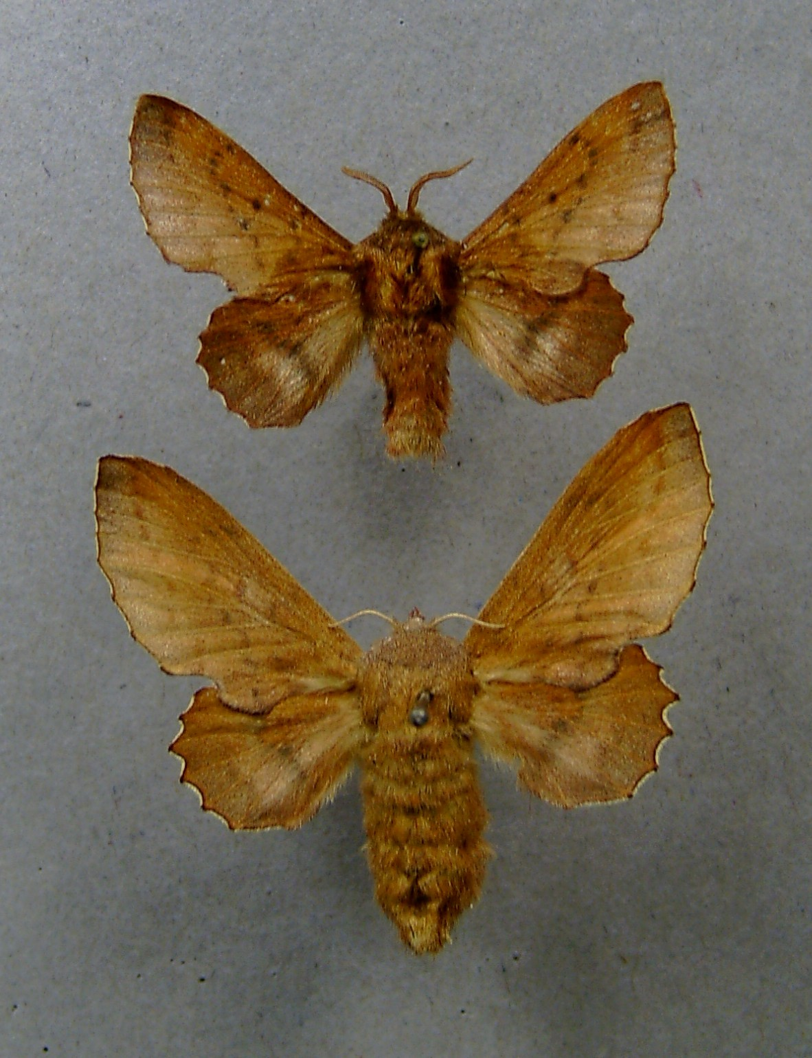 Phyllodesma tremulifolia